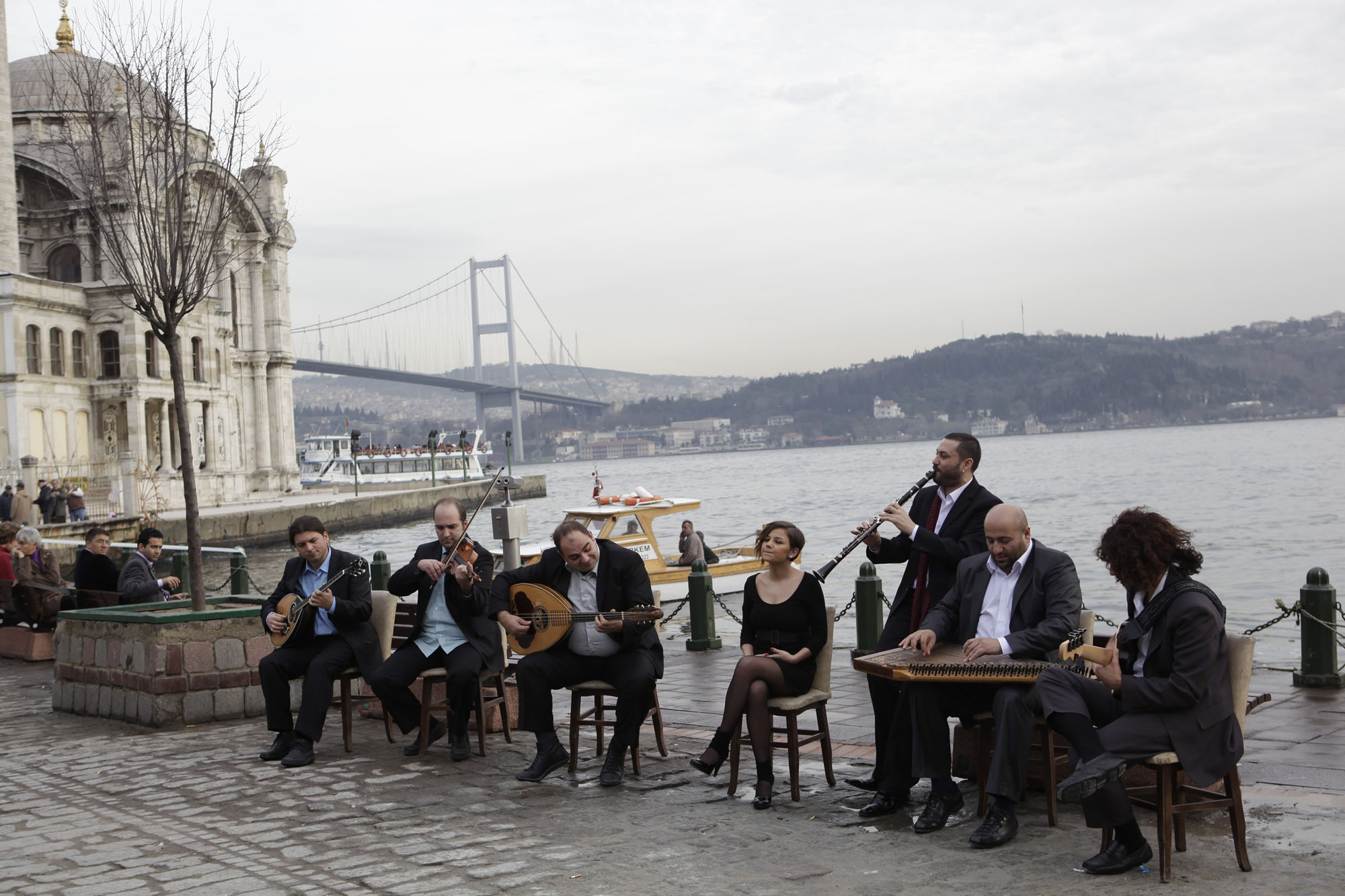 Hüsnü Şenlendirici and Trio Chios during filming video clip song "Gel Gel Kayıkçı". Vocal: Merve Özbey and Markellos Poupalos, clarinet: Hüsnü Şenlendirici, violin: Stamatis Poupalos, Qanun: Aytaç Doğan, Guitar - Oudİ: Markellos Poupalos, Bouzouki:Manolis Stathis